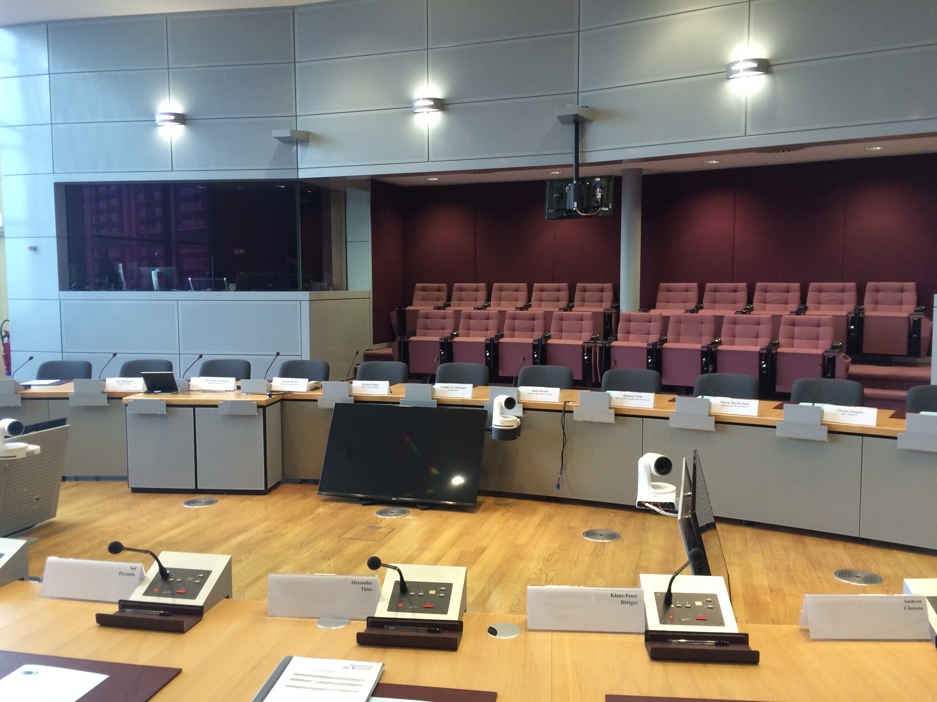 a conference room in the Berlaymont building